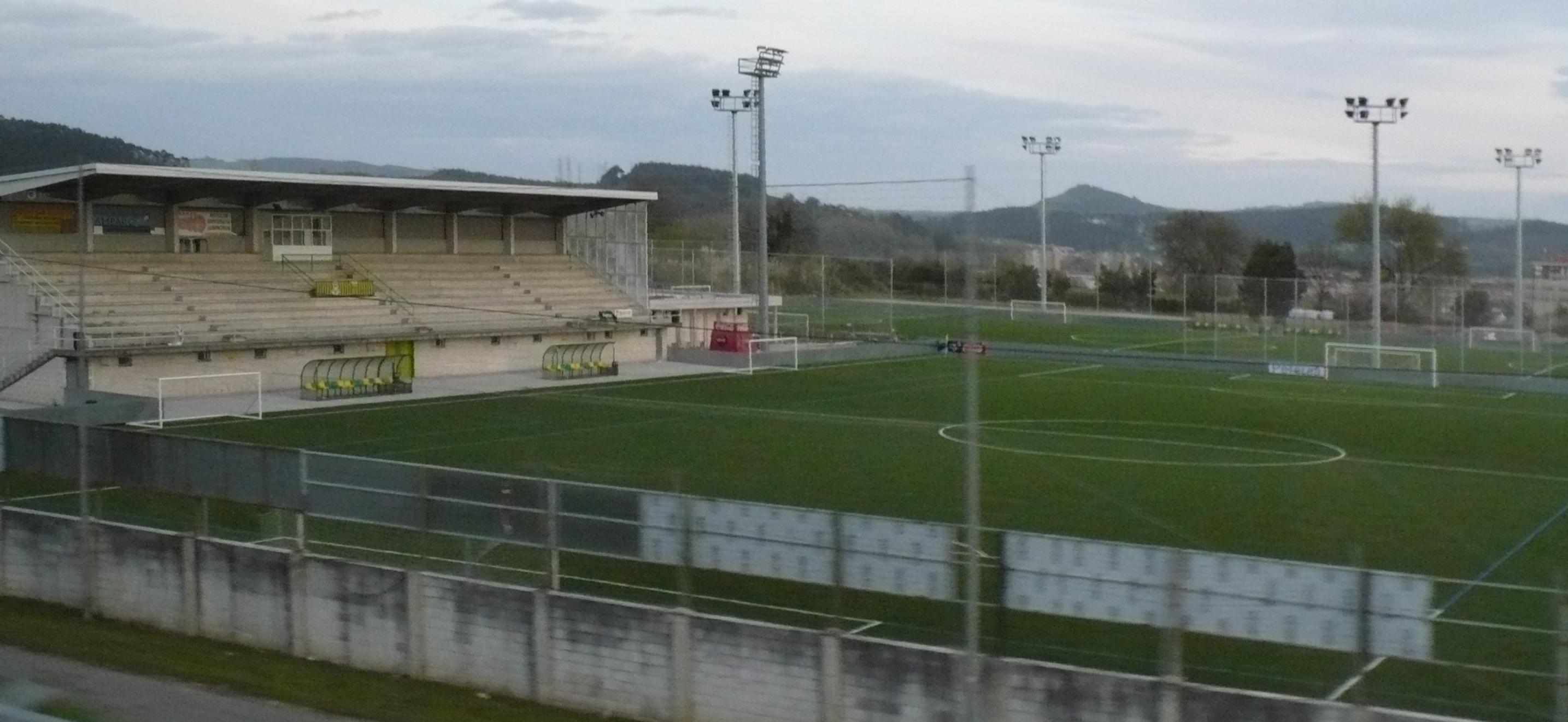 Santa Ana football ground in Tanos, Torlavega (Cantabria), home to Club Deportivo Tropezón